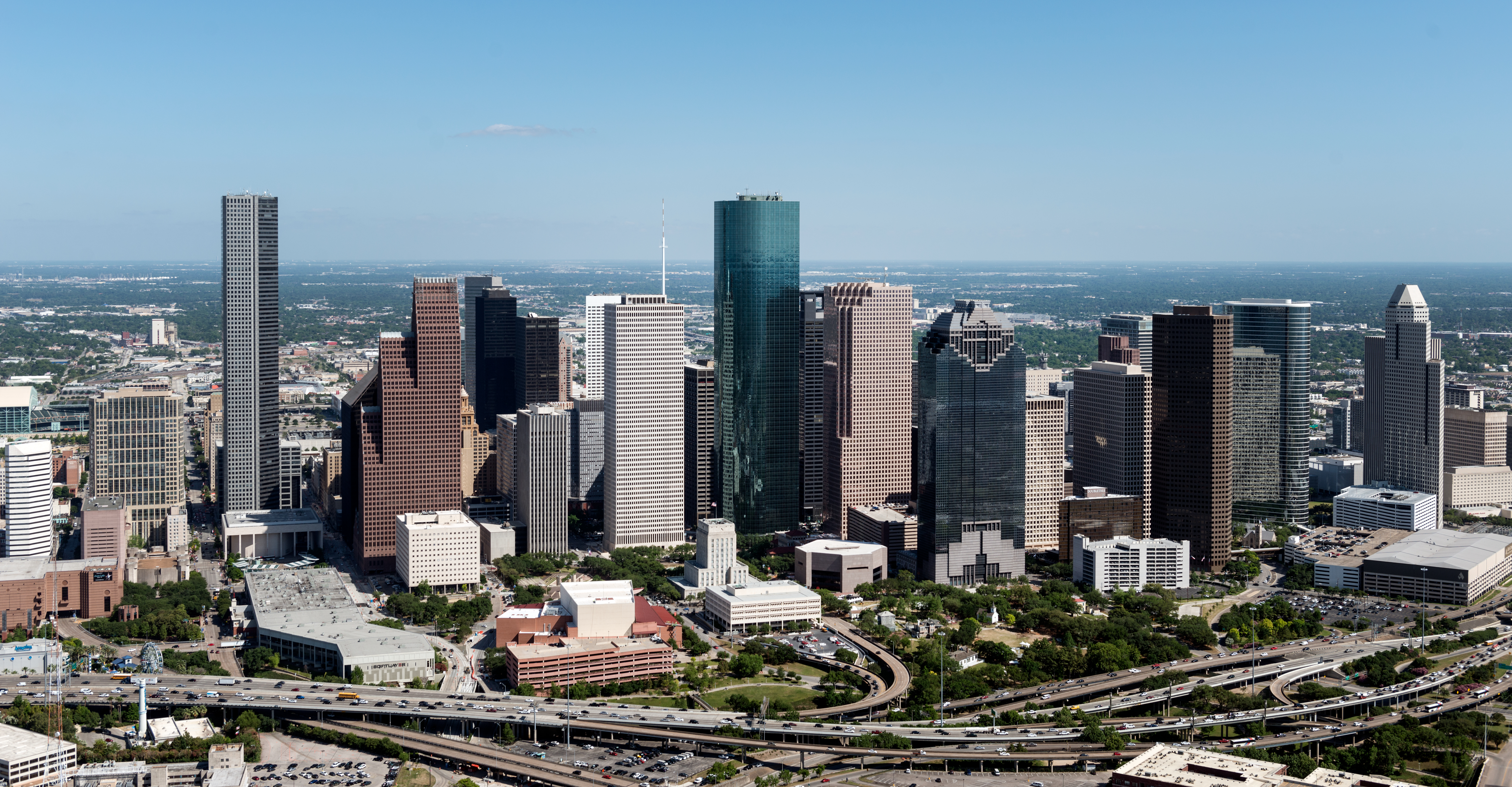 Aerial views of the Houston, Texas, skyline in 2014.